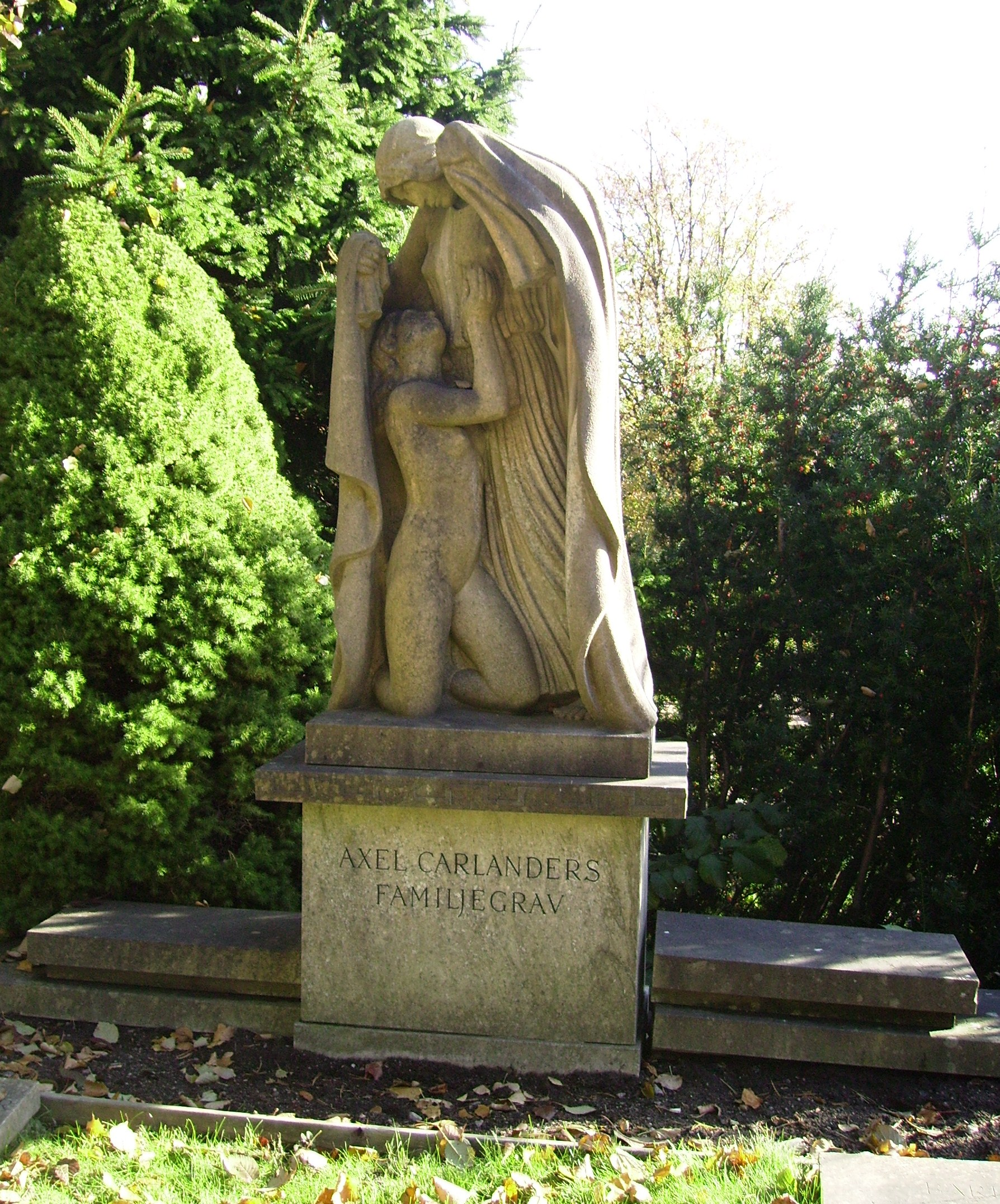 Picture of family Carlander's grave at Östra kyrkogården in Göteborg